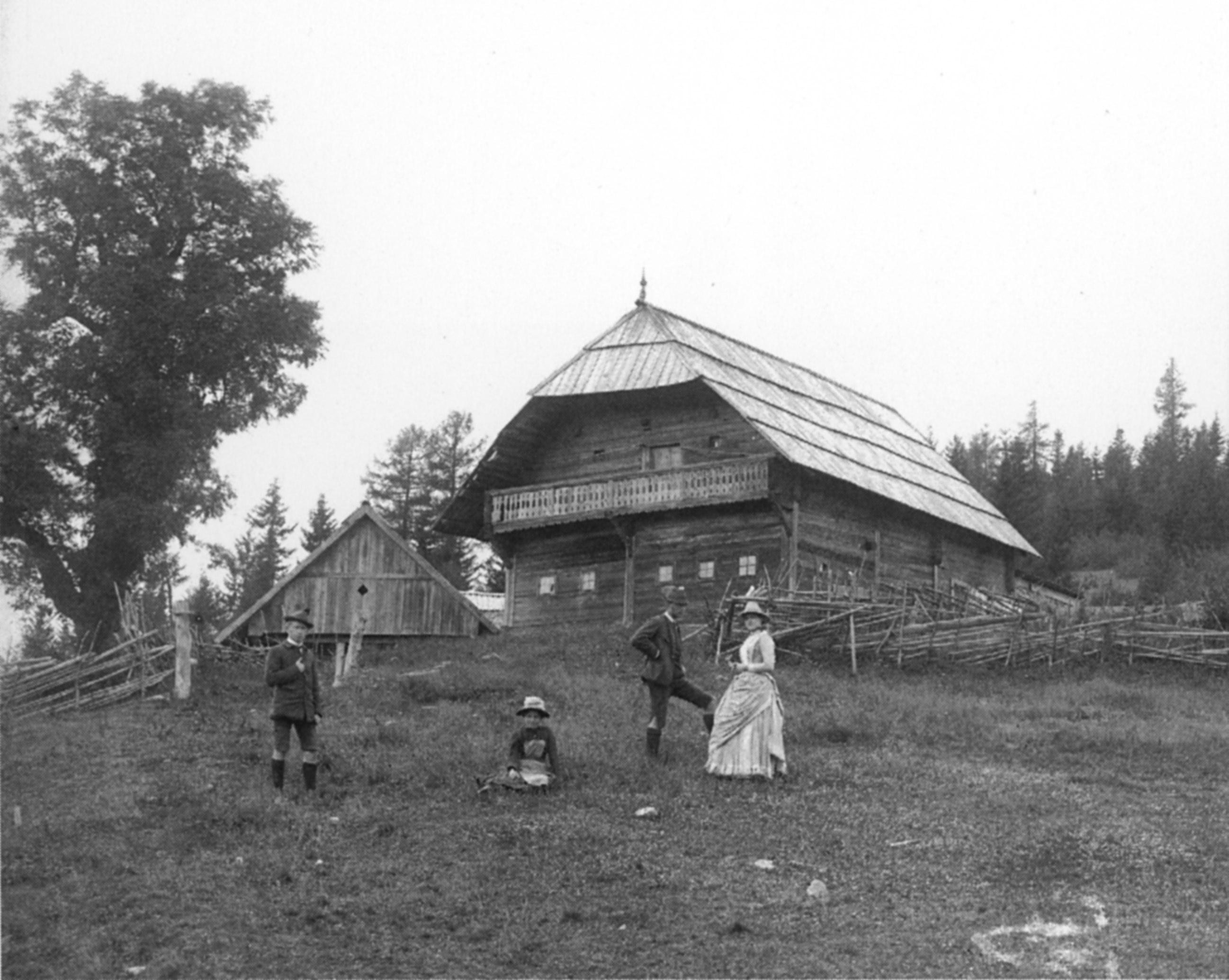 Petschar, Friedlmeier, Steiermark in alten Fotografien, Ueberreuther Verlag Wien. Scanprojekt Community Projektbudget 2012 This scan or this PDF-file was created within the GLAM-project Bookscanning, supported by Wikimedia Germany and Wikimedia Austria as a part of the community-project to capture books, documents and pictures which are not eligible to copyright or for which the copyright has expired. This document describes or depicts an object which is located in Austria today. Texts are written German language. Send requests for uncompressed scans to Hubertl. This work is in the public domain in its country of origin and other countries and areas where the copyright term is the author's life plus 100 years or less. You must also include a United States public domain tag to indicate why this work is in the public domain in the United States. This file has been identified as being free of known restrictions under copyright law, including all related and neighboring rights.